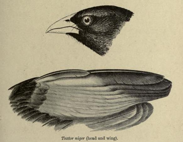 Bubalornis niger wing and head details, 1900